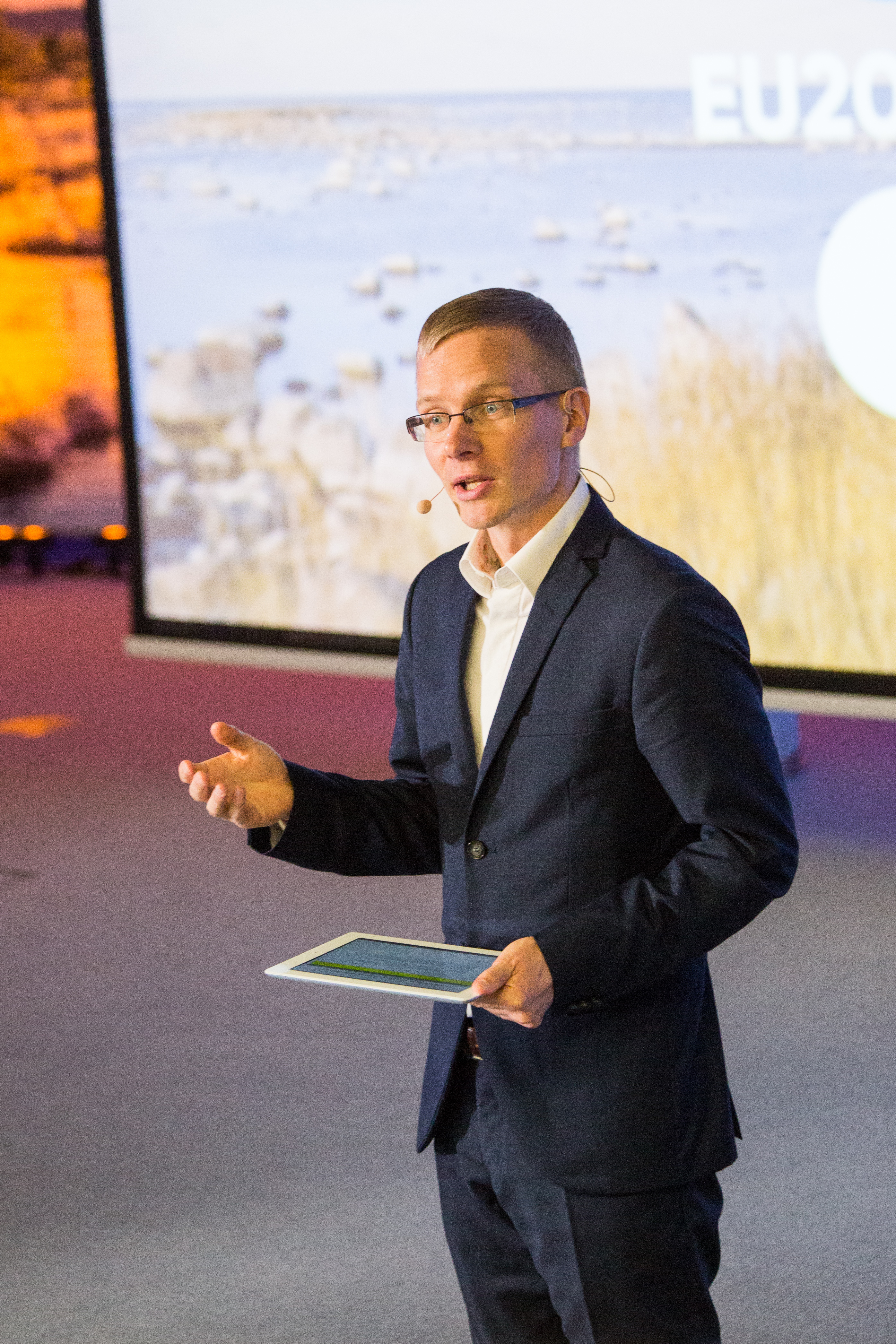 Artur Taevere, Senior Schools Advisor at British Council